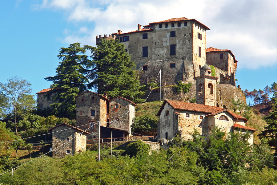 The Castle of Casaleggio Boiro